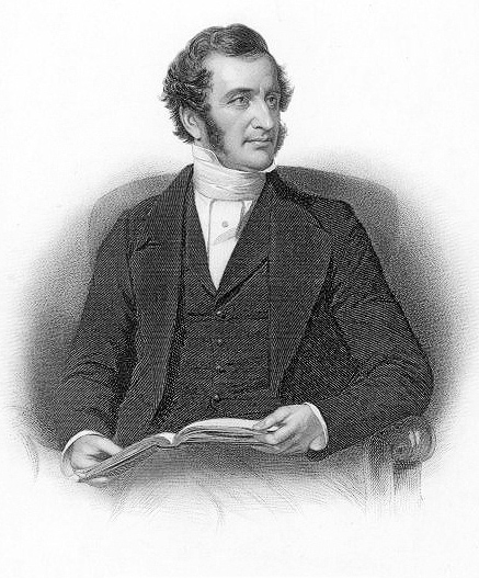 Revd. William Ellis, Hoddesdon, Herts. painted by W. Gush; engraved by J. Cochran.